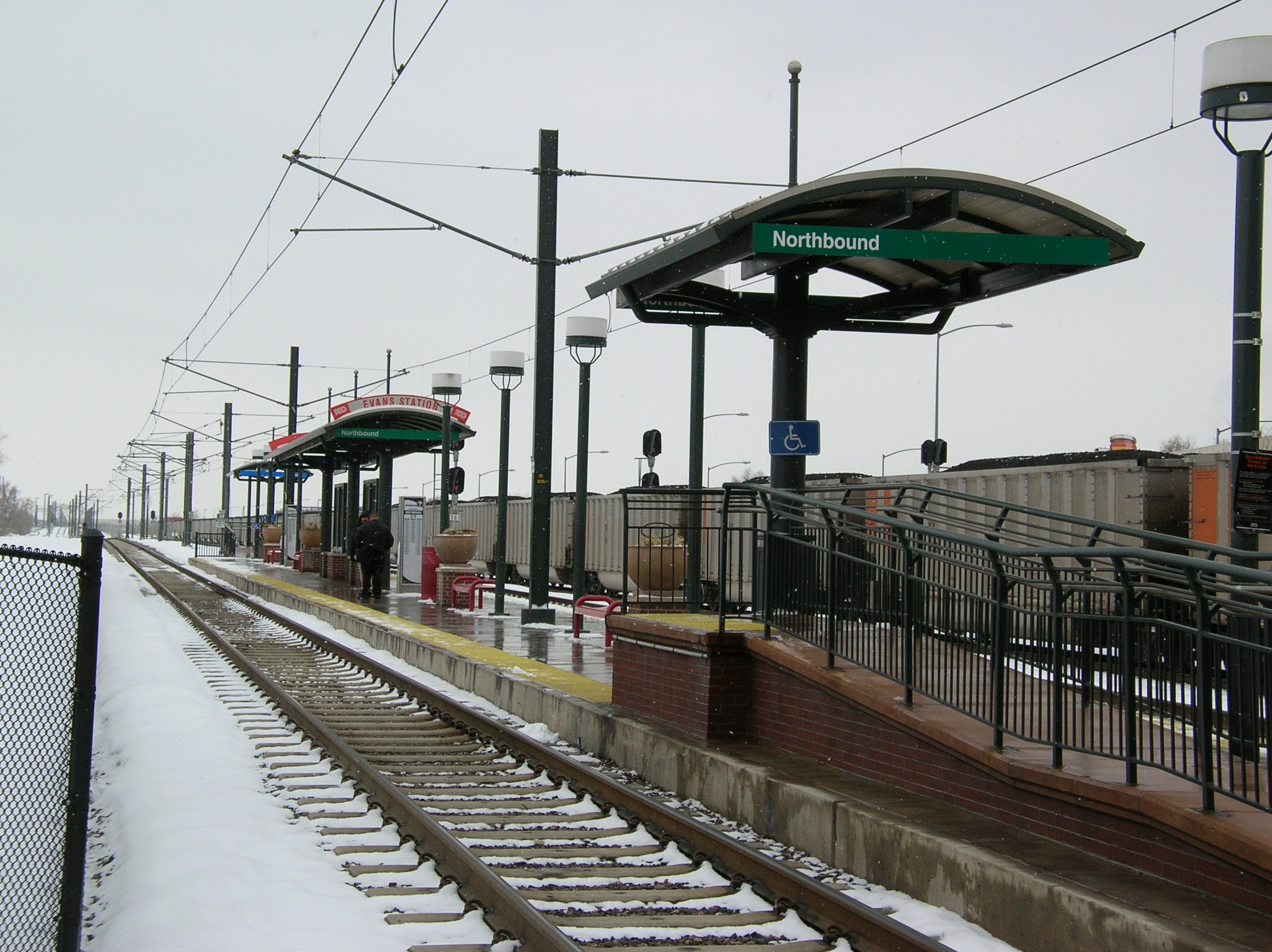 The patform at Evans RTD Station in Denver, CO Taken by Geoff Hagerman on 1/27/07